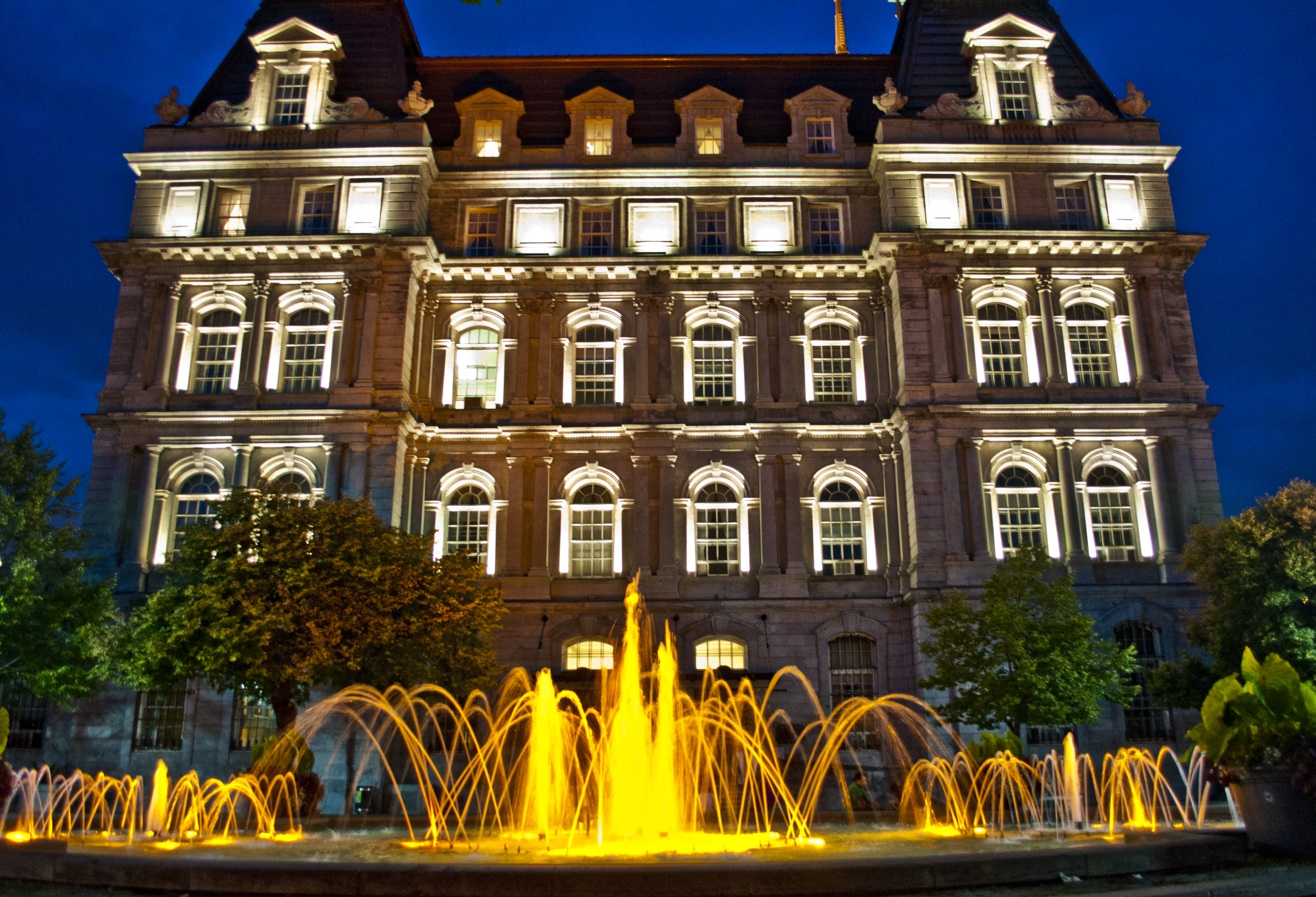 old port montreal